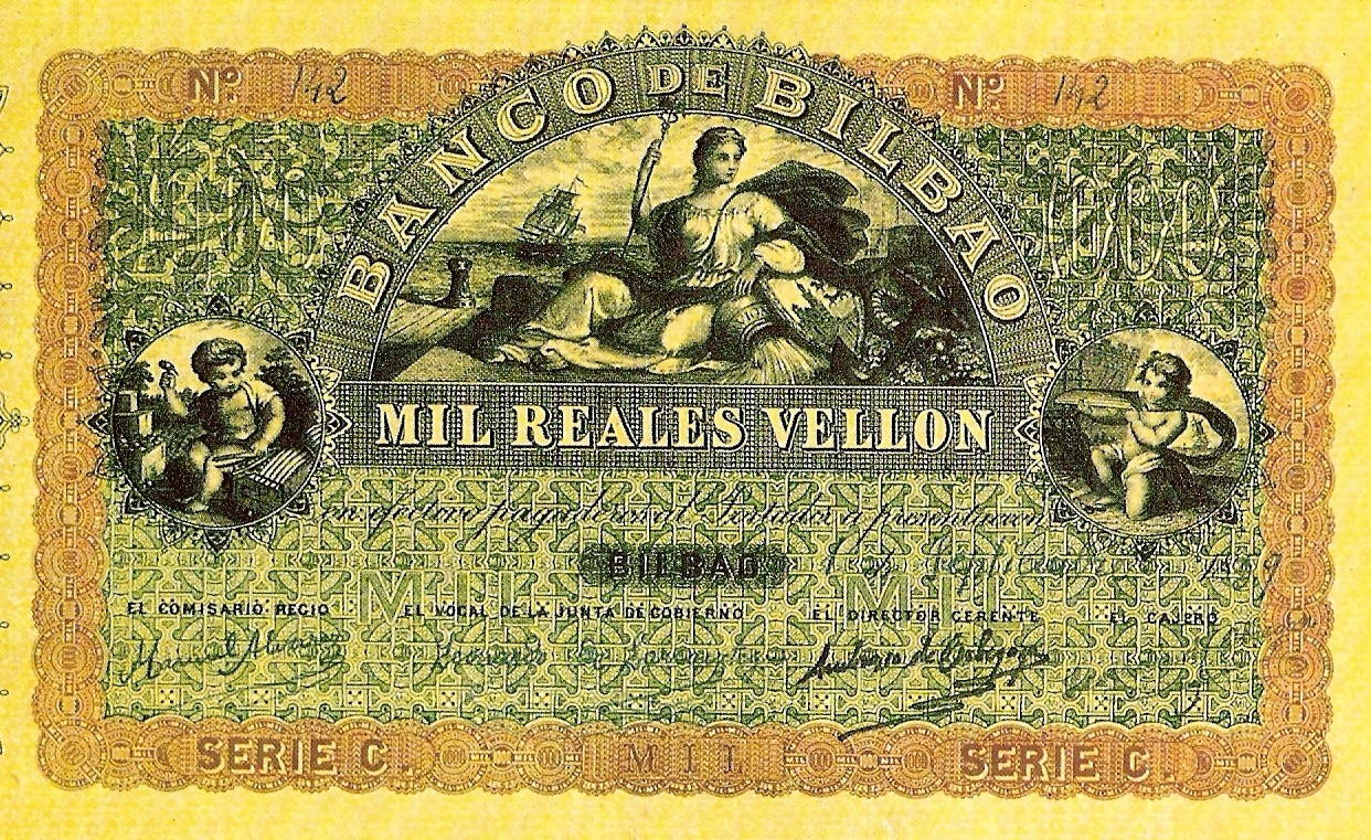 Banknote of Banco de Bilbao 1000 Reales of 1859